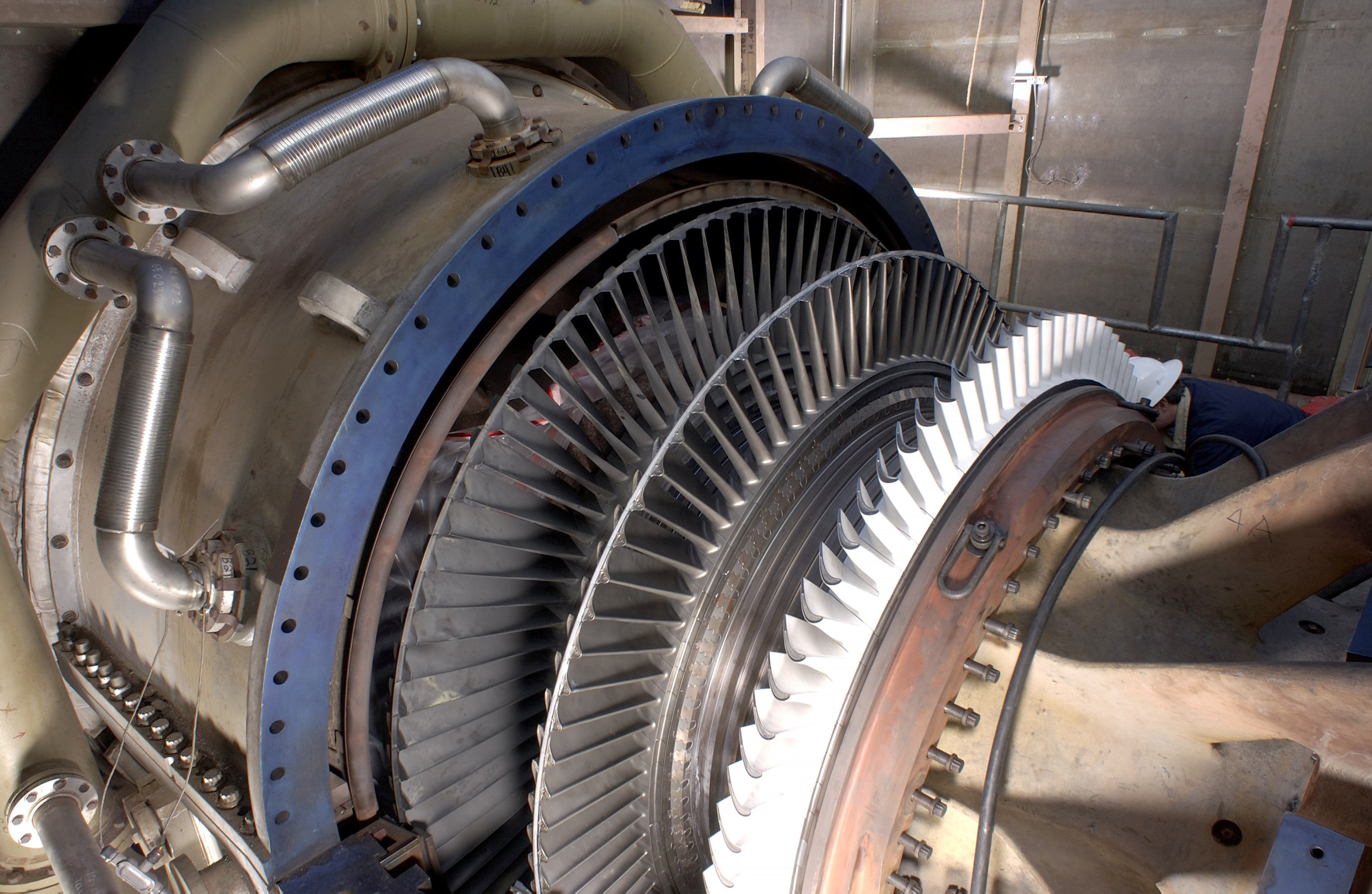 Photograph of industrial gas turbine engine, with interior components shown.